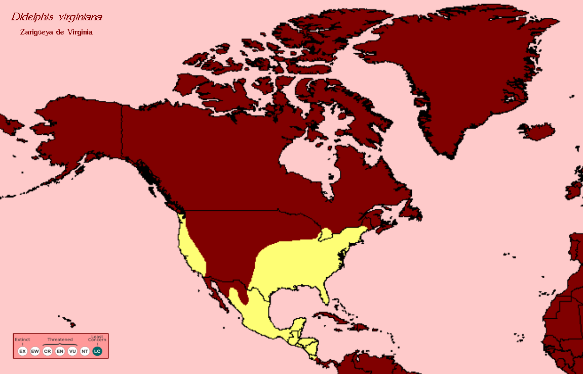 Map of the area of distribution of the Didelphis albiventris